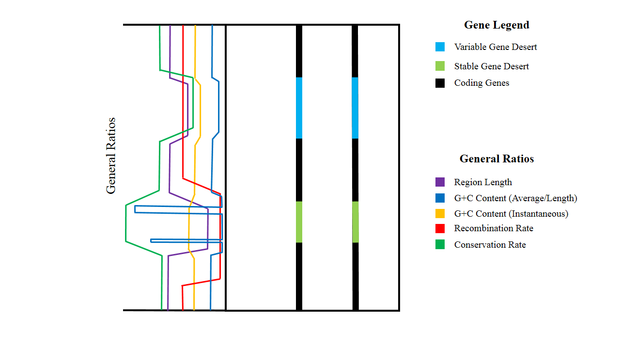 A comparison GC contents and recombination rates between stable and variable gene deserts separated by a coding gene. The general ratios displayed are independent of each other; the exact values do not reflect the scales. 1) Recombination rates are not synonymous to conservation rates: while the former describes apparent effects of recombination, the latter describes the activity of preserving genes. 2) Due to the presence of stable gene deserts, the recombination rates in neighboring coding genes are also decreased. Several of these stable gene deserts may cluster in pairs around essential coding genes to form long sytenic loci that are inherited together.